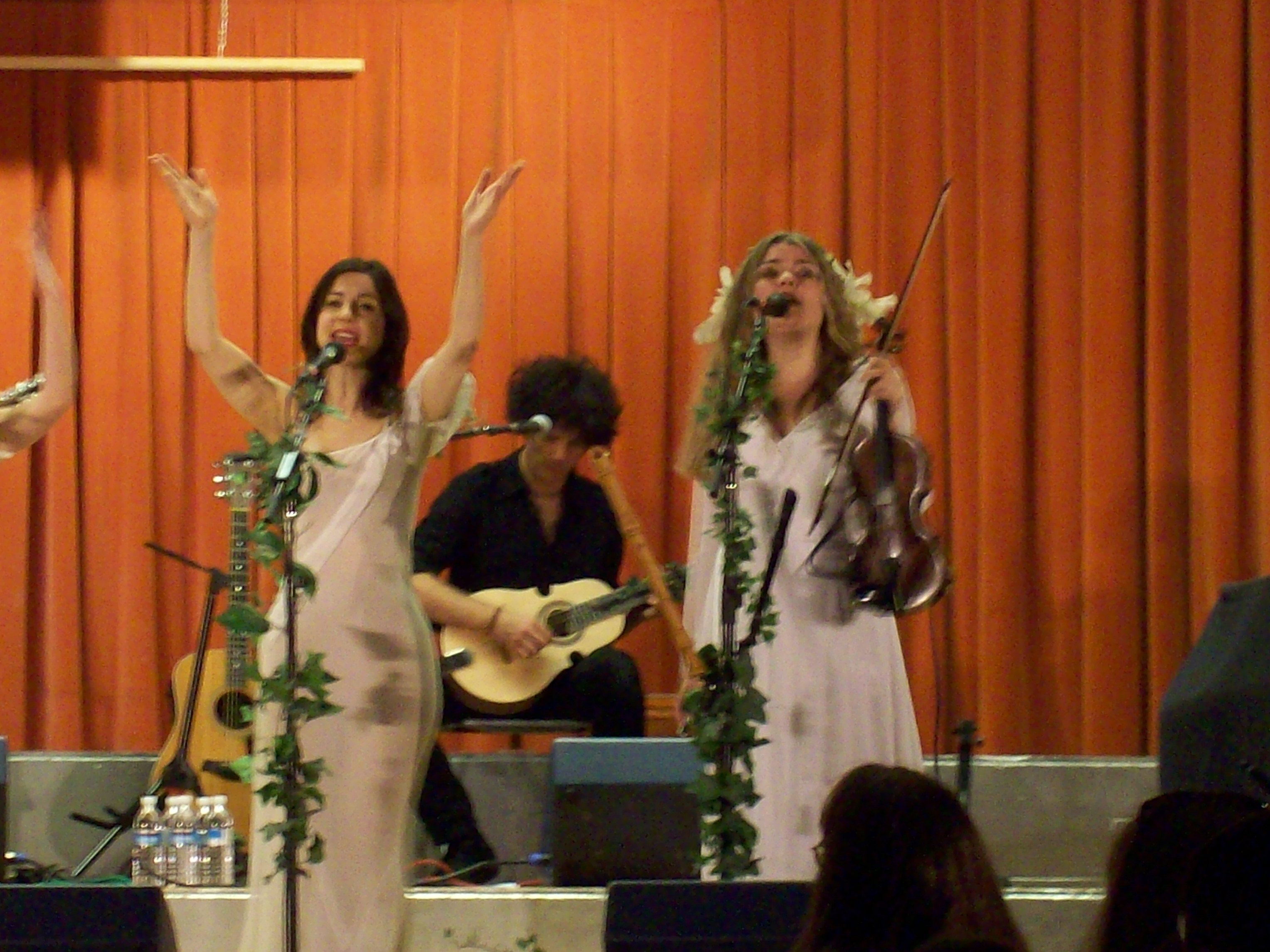 Katherine Blake